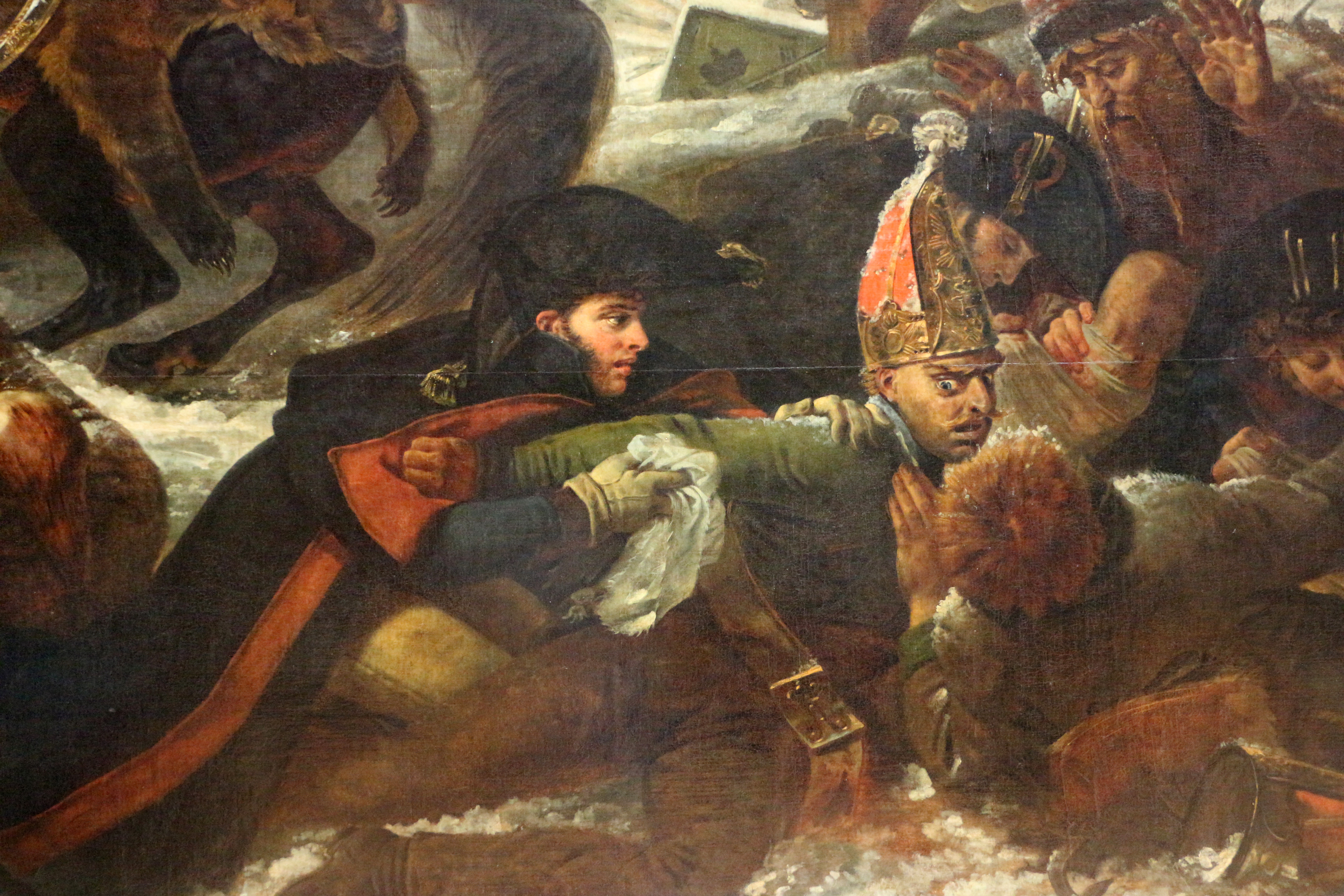 French paintings in the Louvre